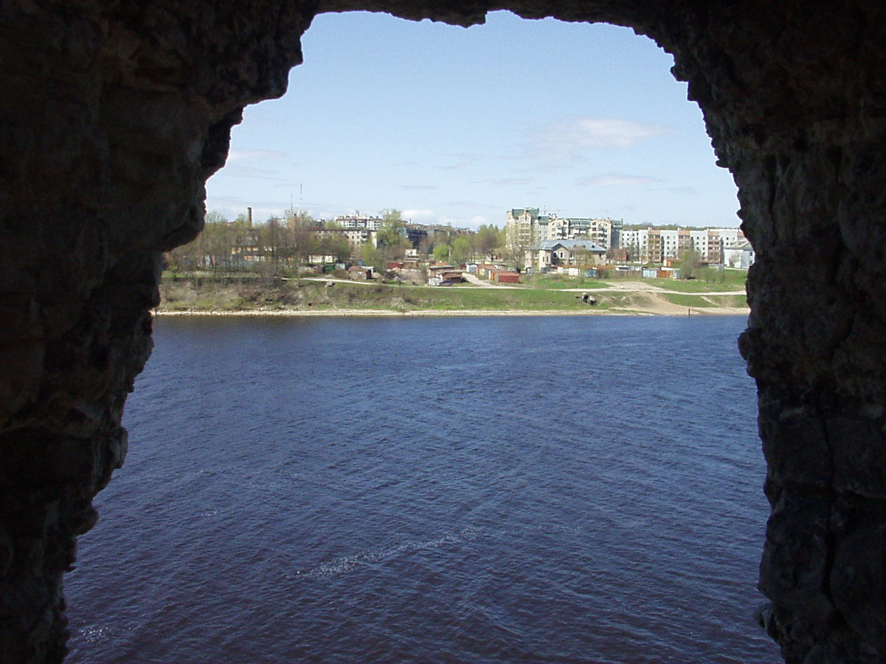 View of the Pskov city from the Pskov Kremlin